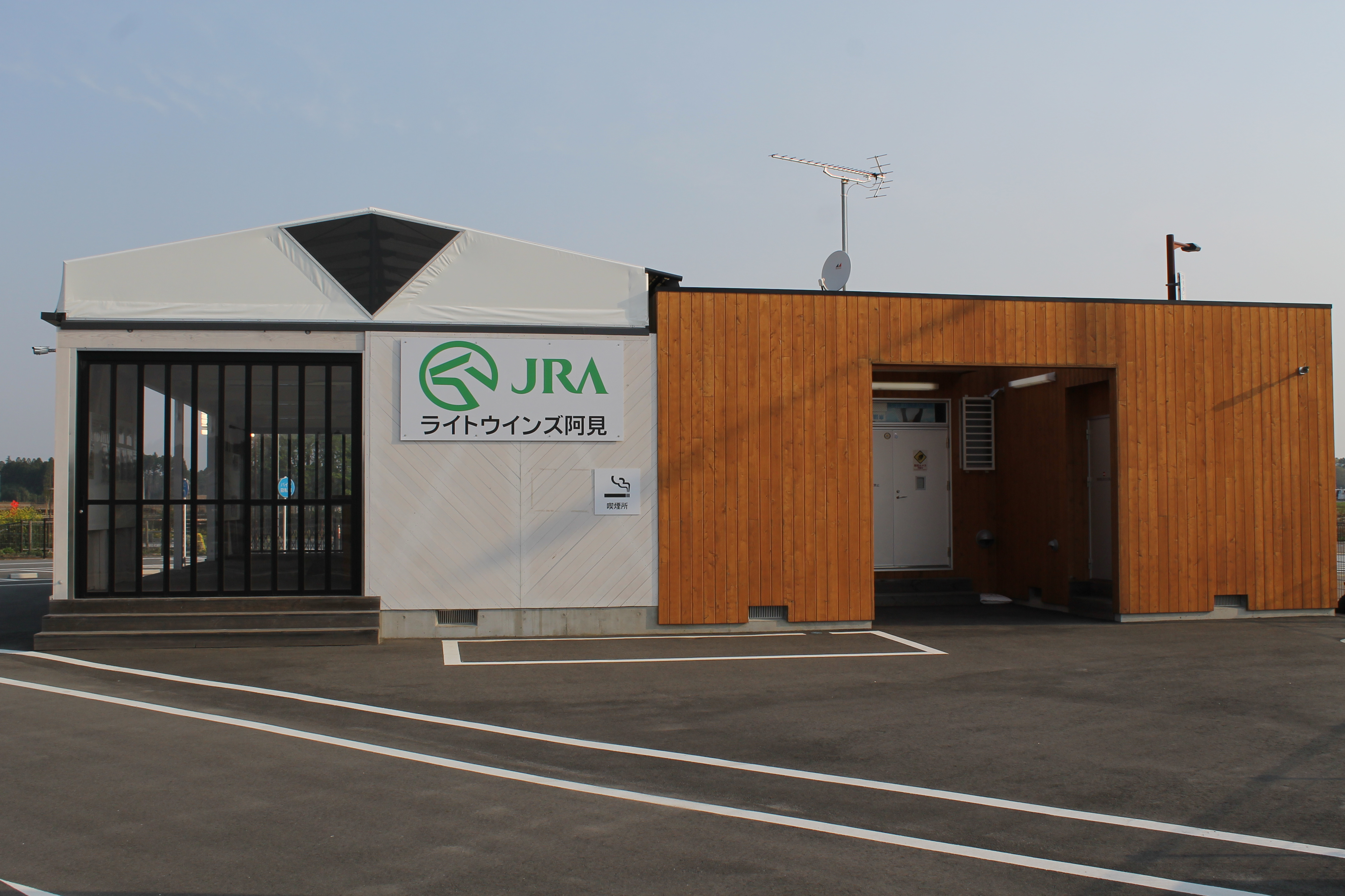 Light-WINS Ami (betting station for horse race)